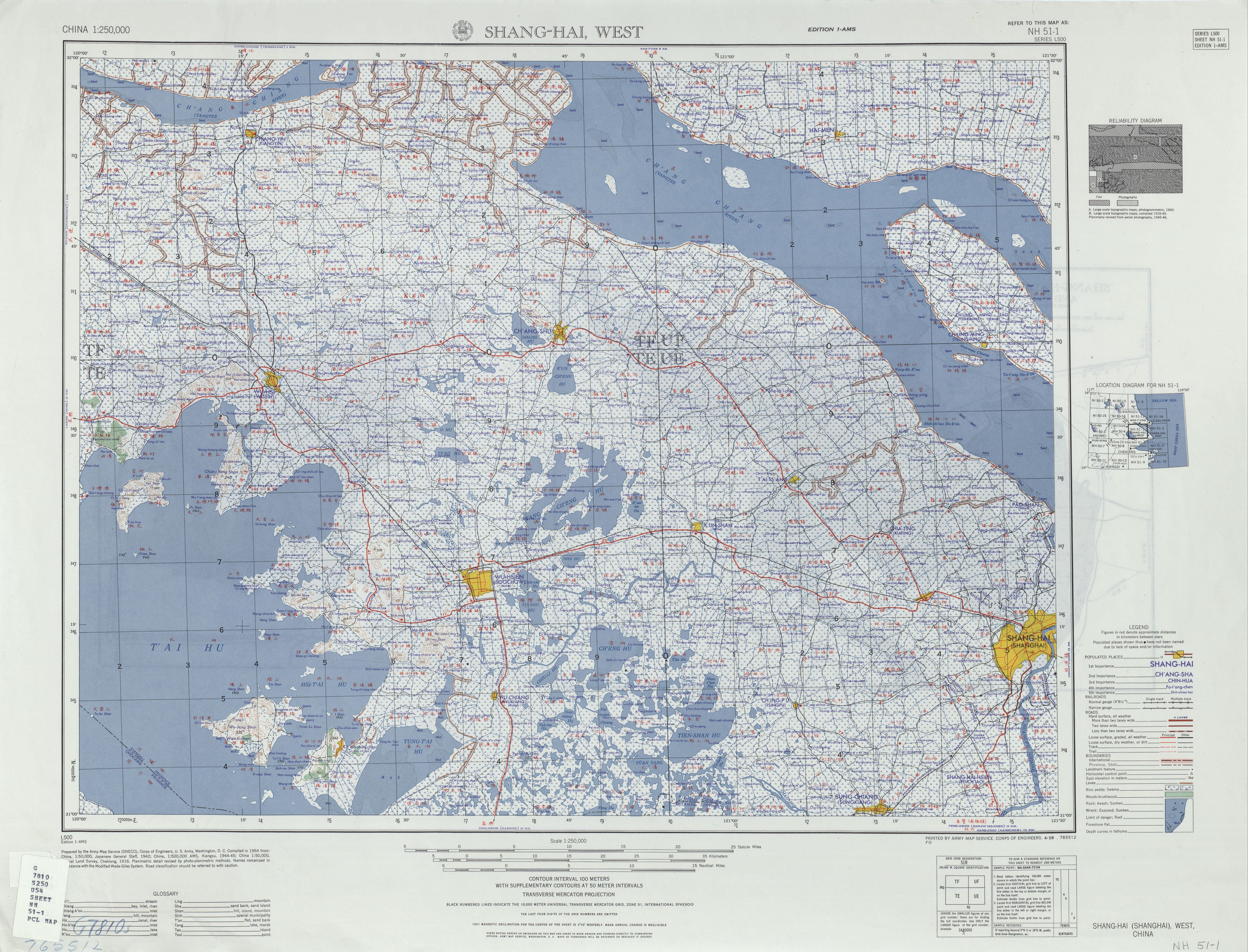 China AMS Topographic Map of Western Shanghai Province (Shang-Hai, West) and environs, including Suzhou. Based on WWII-era data.